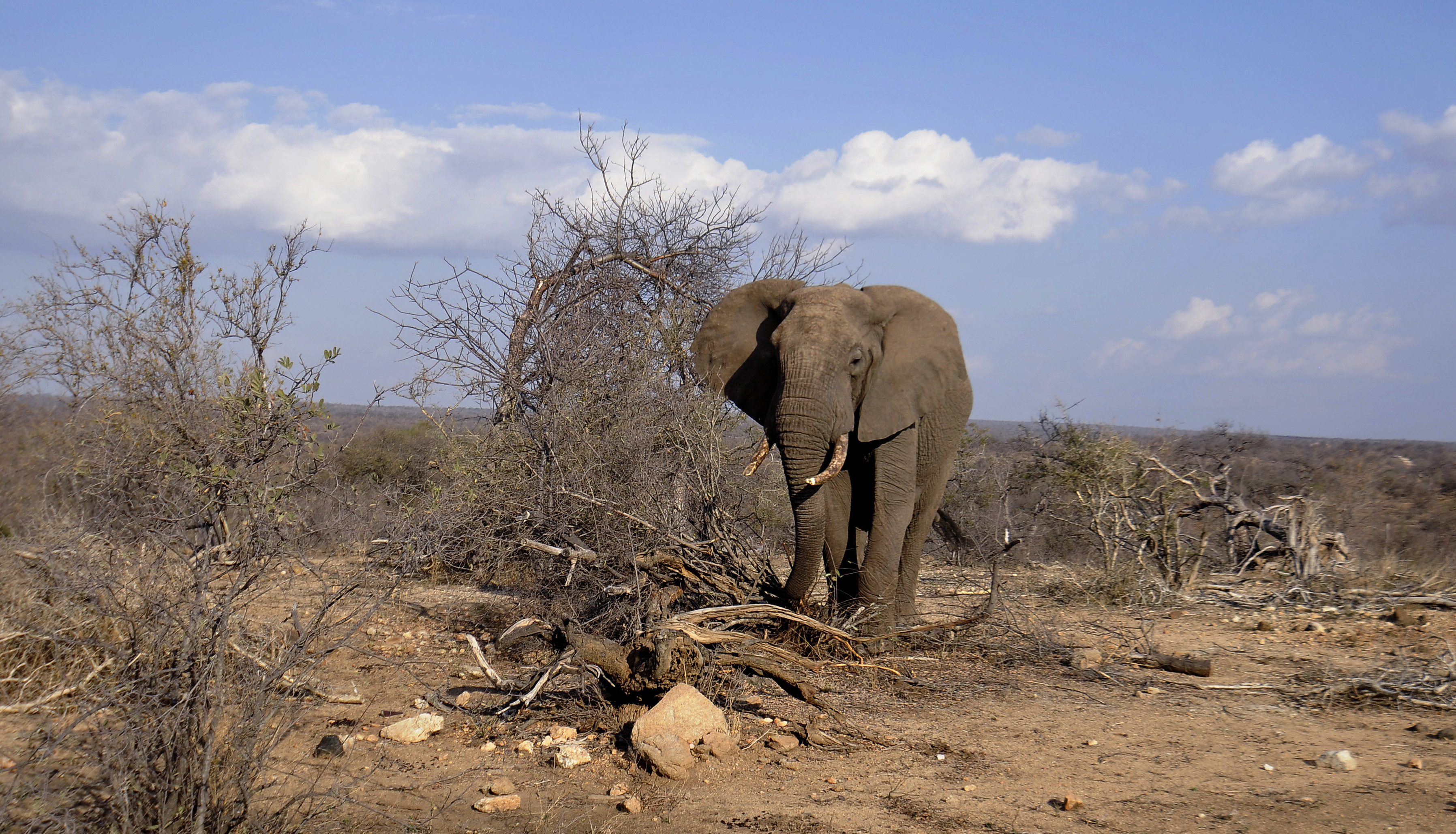 Elephant bull in Balule Game Reserve outside Kruger National Park.Photo by:Jan Fleischmann